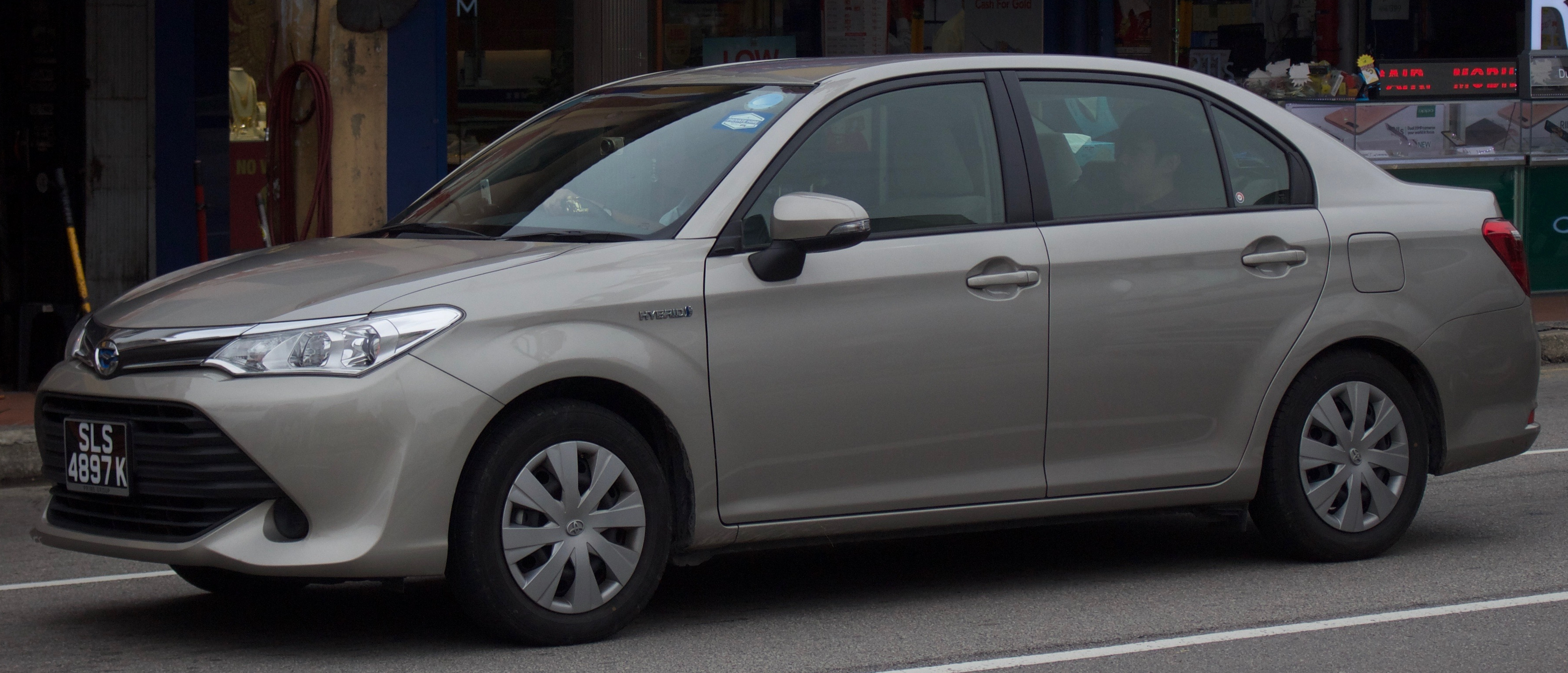 2016 Toyota Corolla Axio (NKE165) Hybrid sedan. Photographed in Singapore.